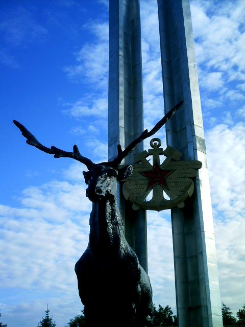 Jagdaqi NorthHill Park Railway Sapper Monument